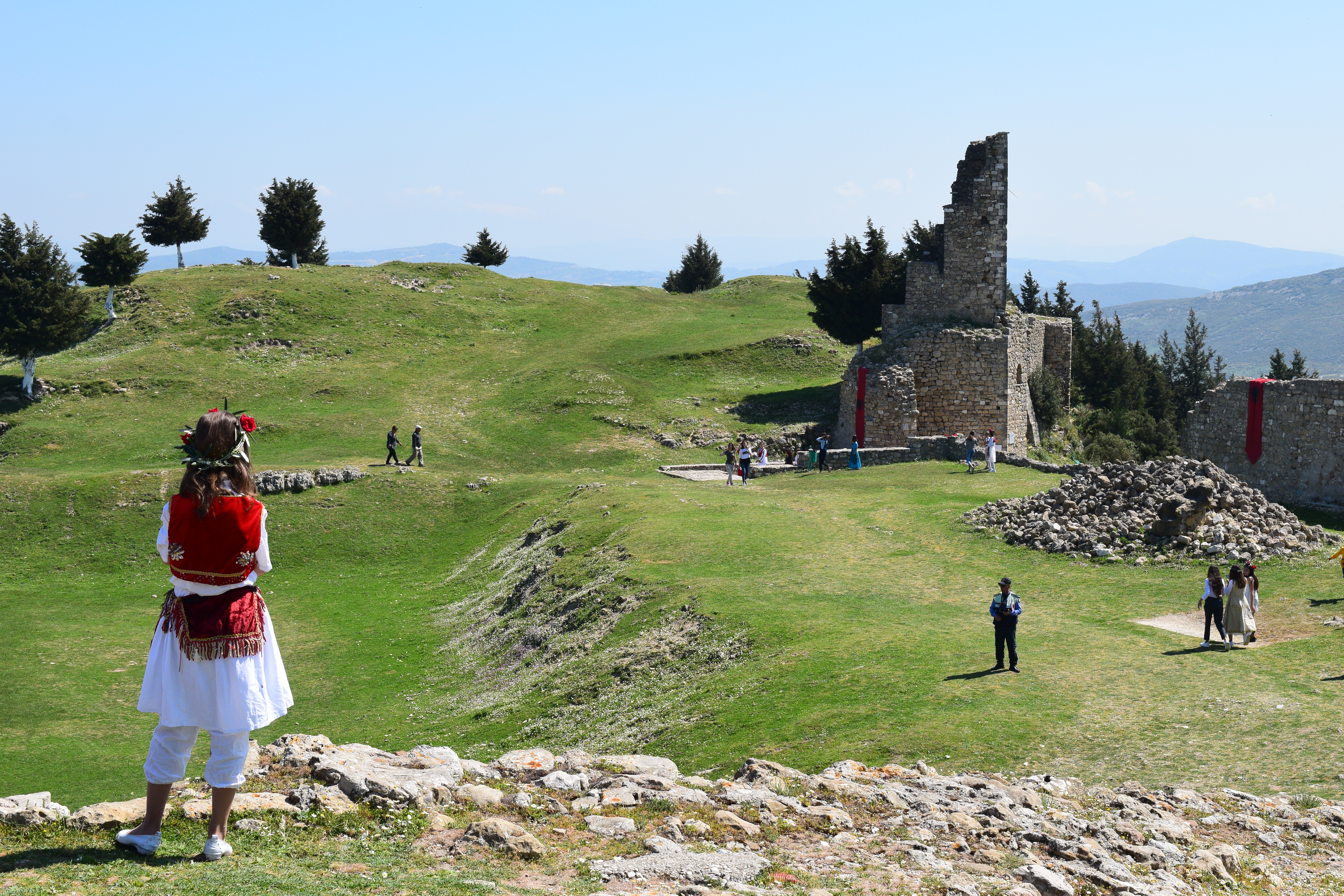 The environment around the Canina Castle, April 2018. Photographed during the celebrations for the 567th wedding anniversary of Gjergj Kastrioti (Skanderbeg) with Donika Gjergj Arianiti.